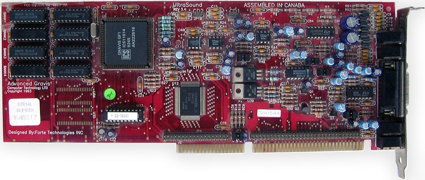 A Gravis Ultrasound sound card (rev 3.4).